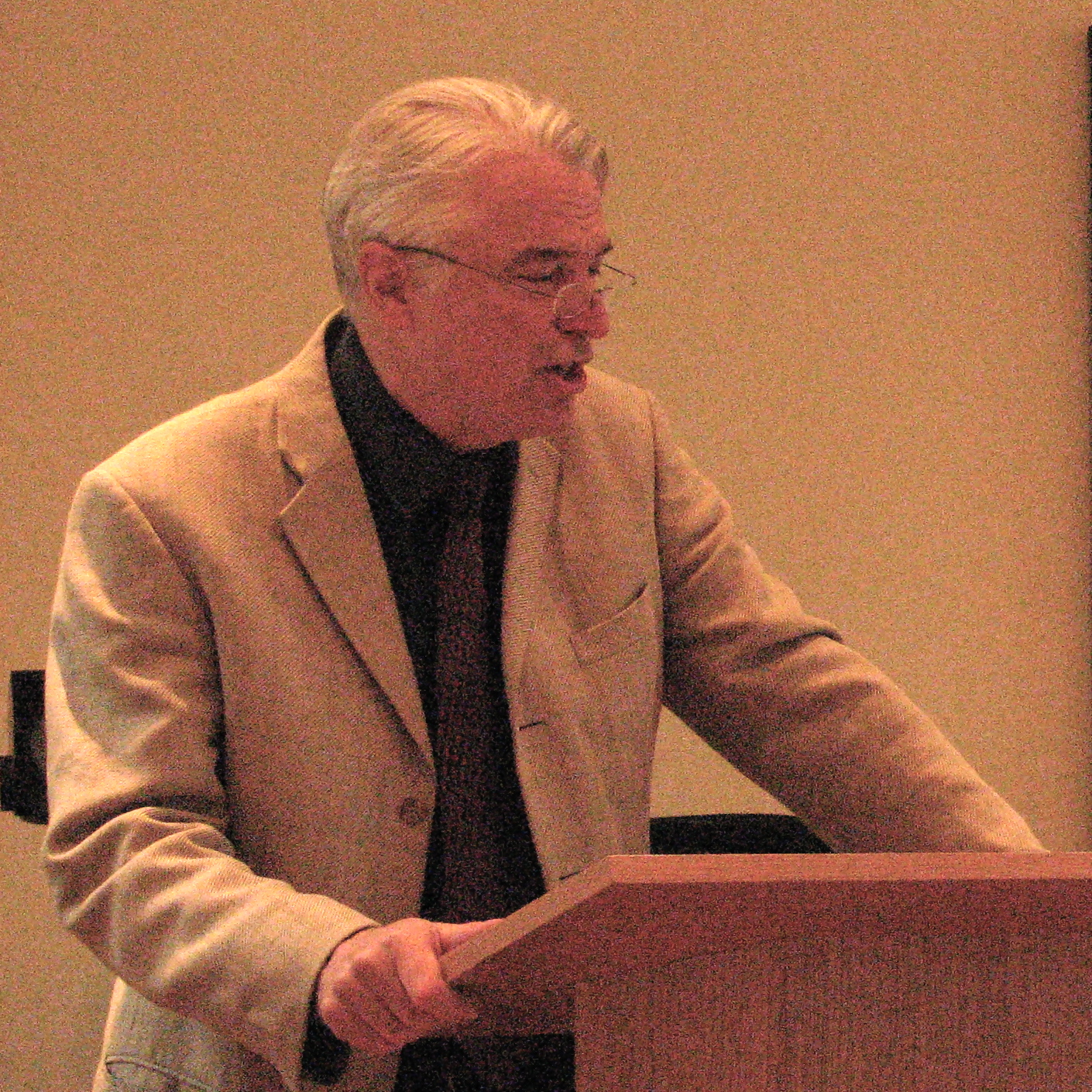 Dr. Rayner, Director of the Oxford's Saïd Business School Institute for Science, Innovation, and Society, explained developments over the last 50 years in thinking influenced by C.P. Snow's famous lecture, "The Two Cultures".